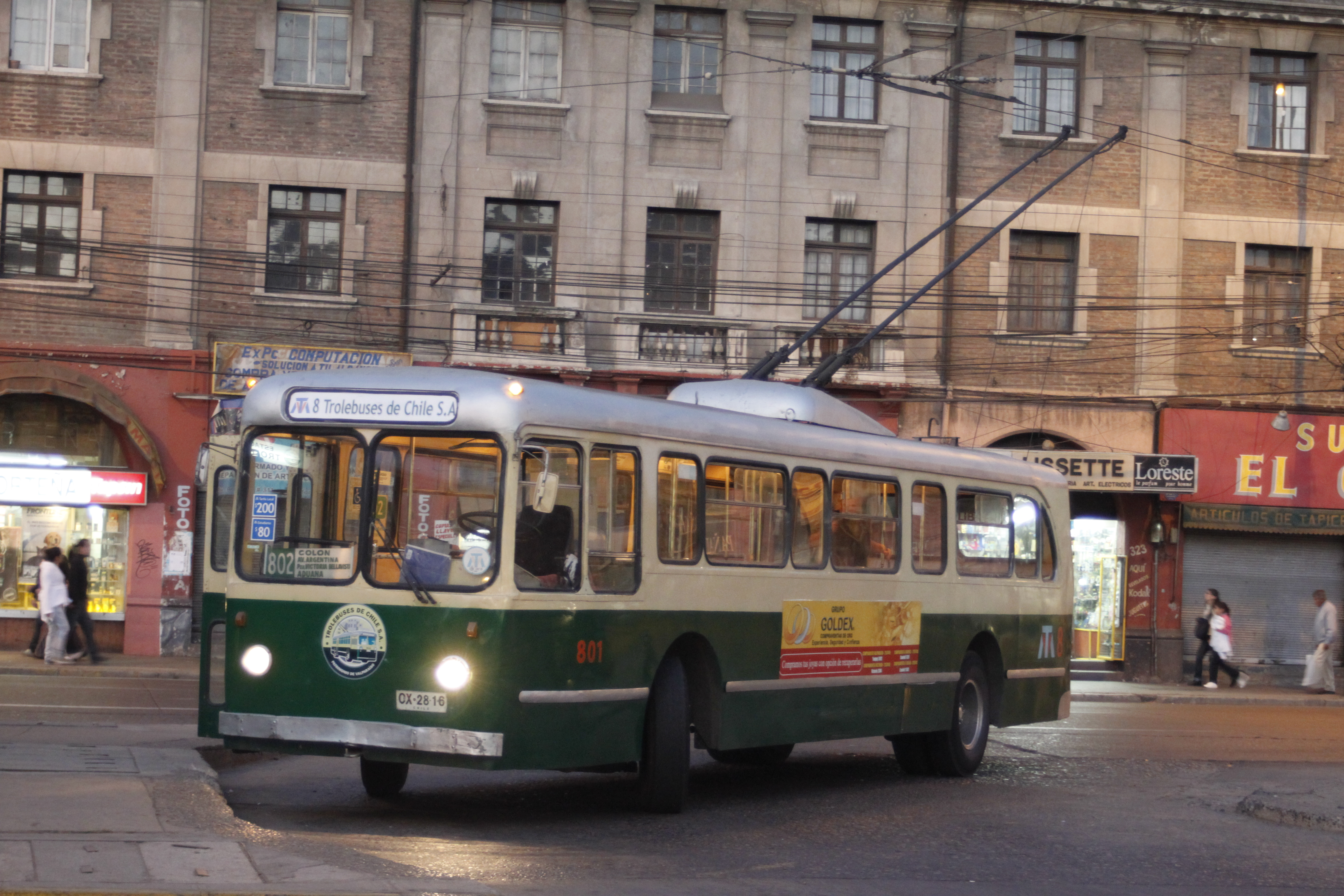 Pullman-Standard trolleybus 801 in Valparaíso, Chile. No. 801 was built in 1946 for the Santiago trolleybus system (which closed in 1978) but was later transferred to the Valparaíso trolleybus system, along with several other Santiago Pullman trolleybuses (most built in 1947 or 1948). In the late 1980s, No. 801 was modernized with new front and side windows. It is still in service in 2017. This is a photo of a national monument in Chile: 2010